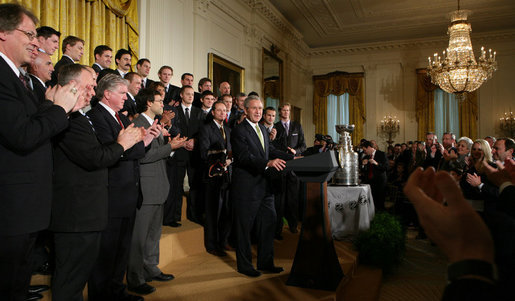 " President George W. Bush welcomes the 2007 NHL Stanley Cup champion Anaheim Ducks to the East Room of the White House Wednesday, Feb. 6, 2008. The Ducks claimed their first Cup when they defeated the Ottawa Senators in the best-of-seven championship series in June 2007."